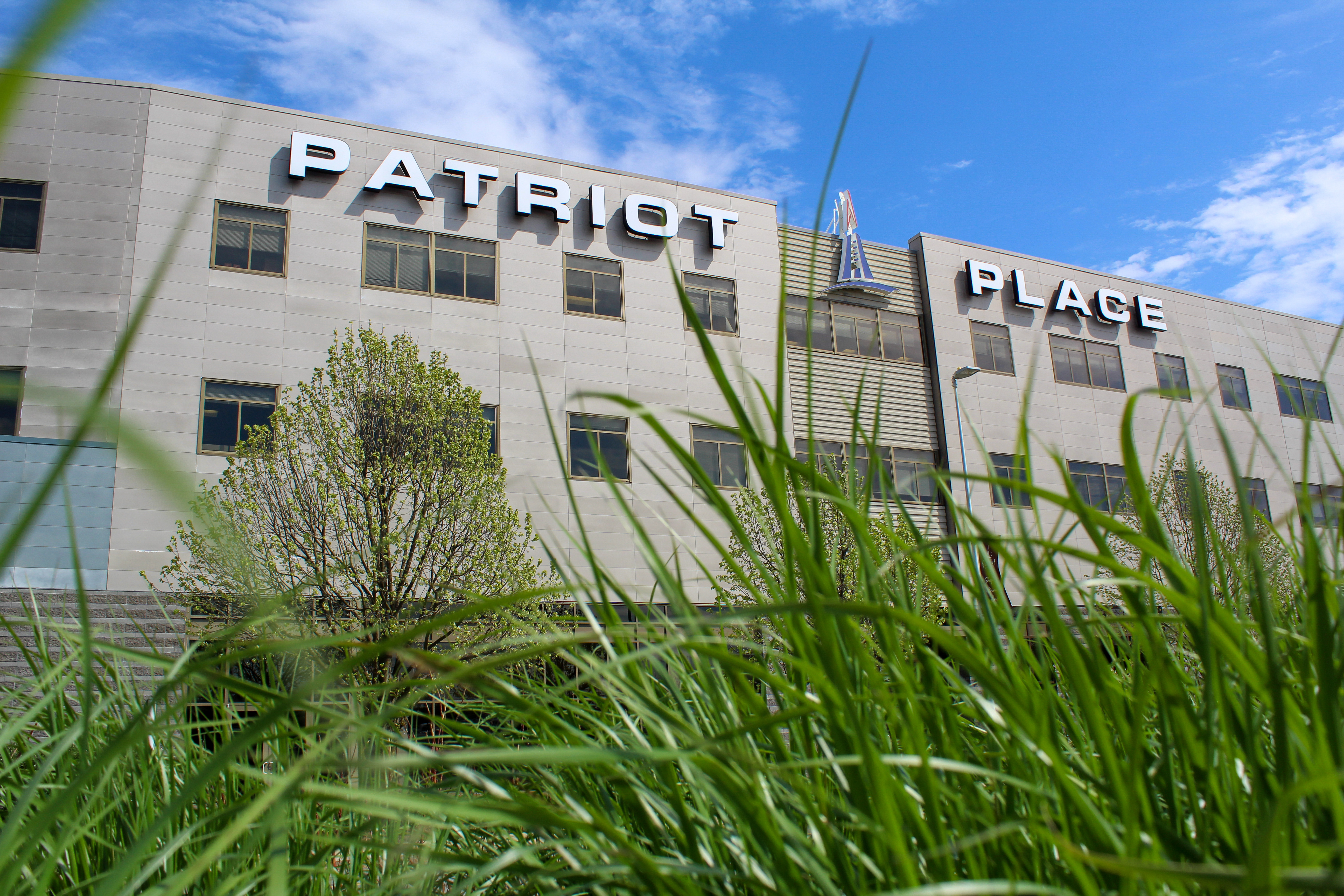 Patriot Place